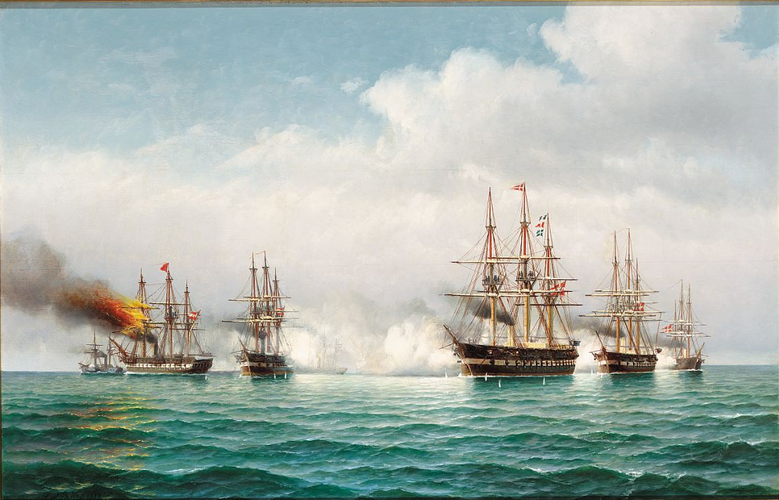 A scene from the battle of Heligoland, 1864. The Austrian frigate Schwarzenberg has caught fire and is heading for neutral (English) Heligoland, with the Radetzky covering her. To the right, the Danish squadron, consisting of Niels Juel, Jylland and Hejmdal.